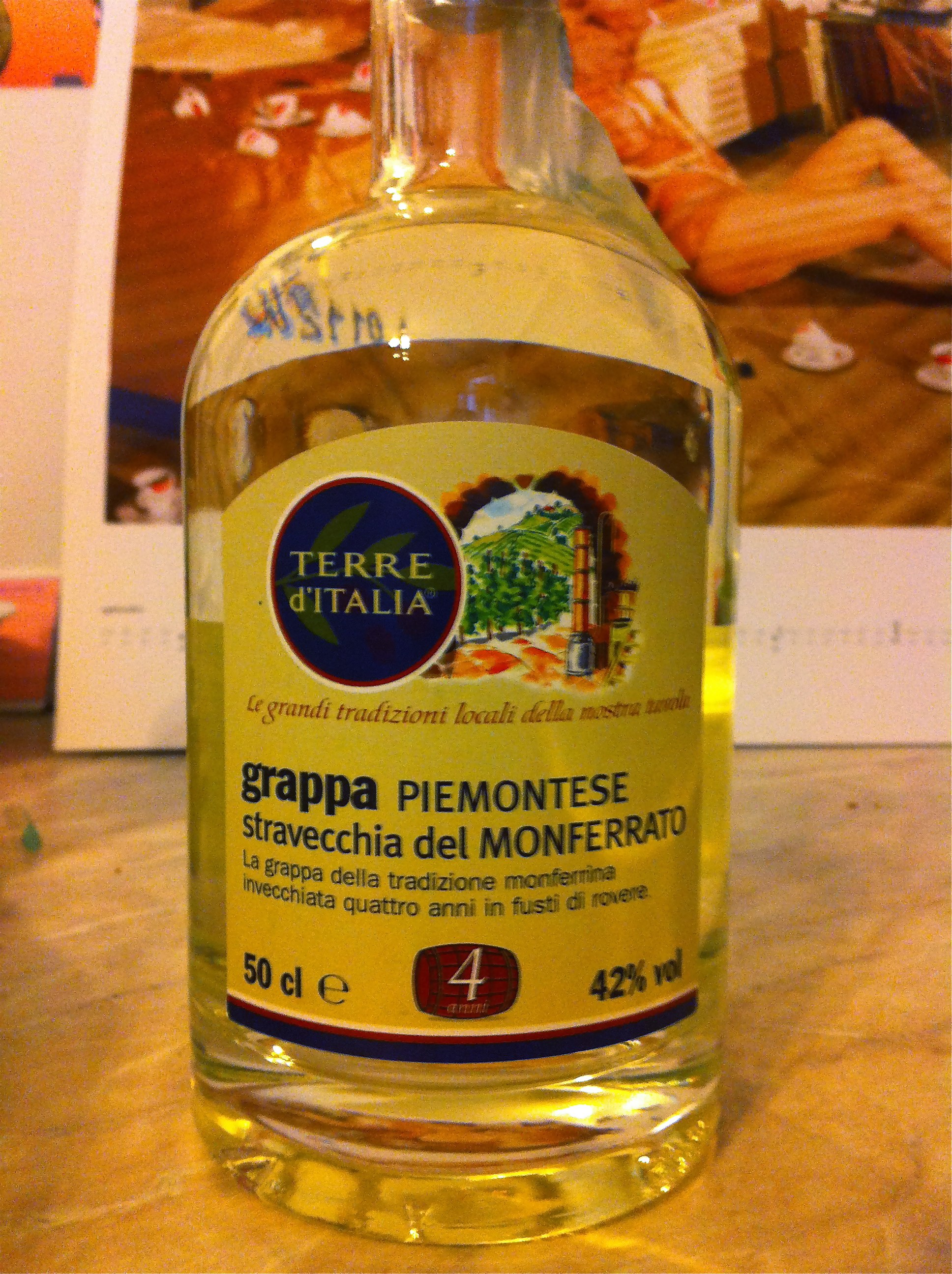 Pomace Brandy from the Piedmont region of Italy.